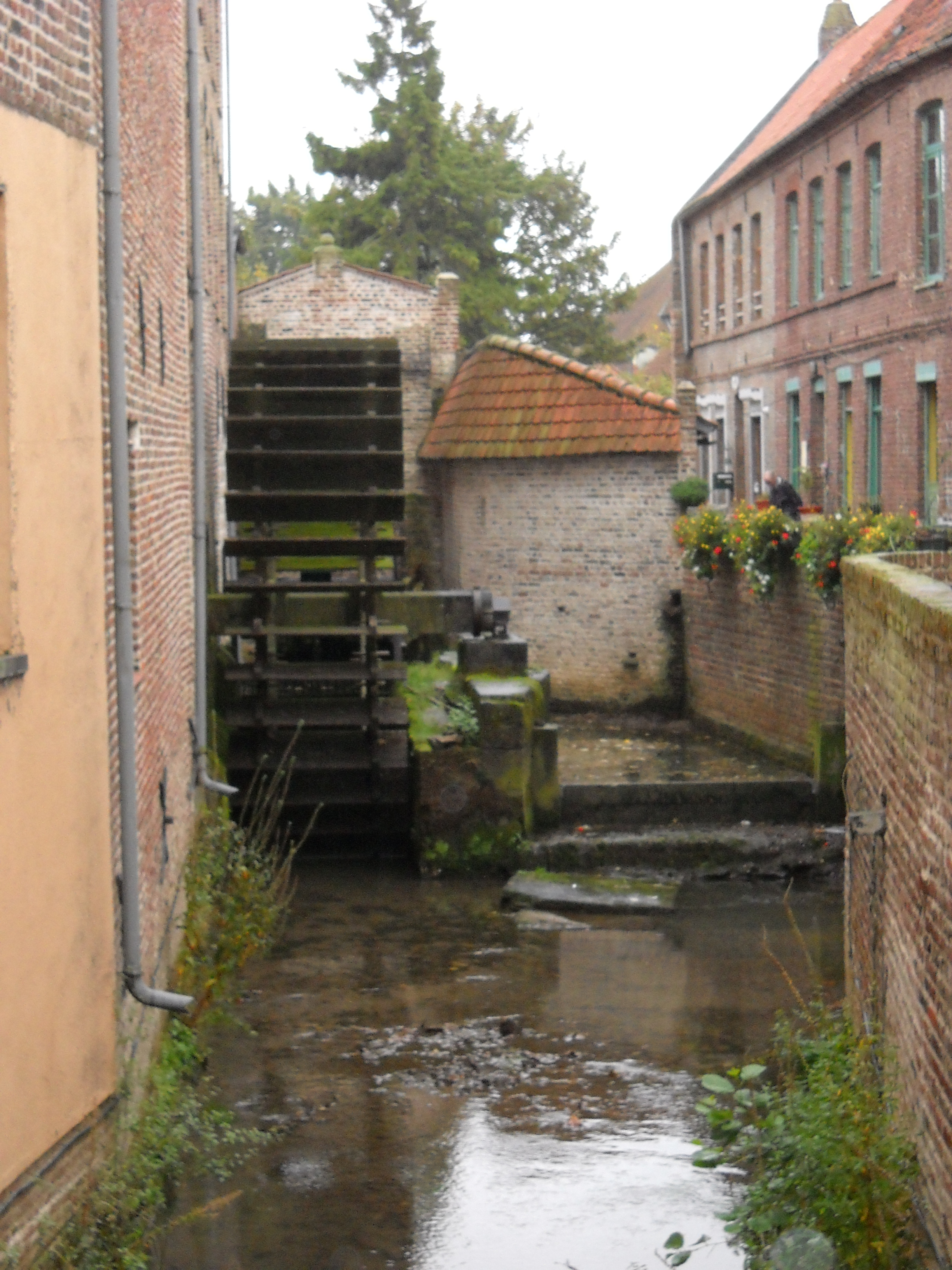 River Lacquette, in Aire-sur-la-Lys, Pas-de-Calais, France.